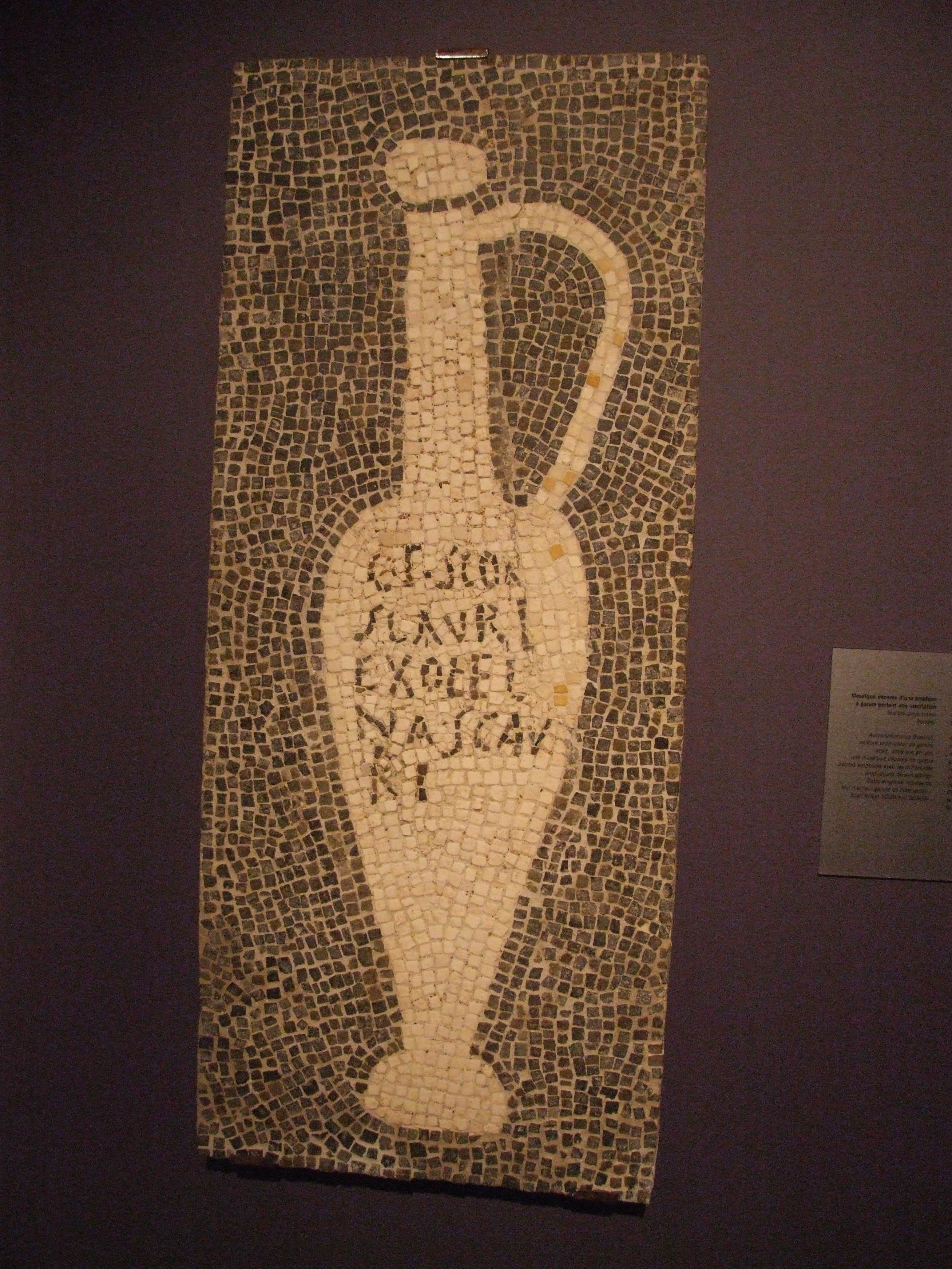 Garum, picture from the villa of Aulus Umbricius Scaurus, Pompeii: G(ari) F(los) SCOM(bri) SCAURI EX OFFI(ci)NA SCAURI